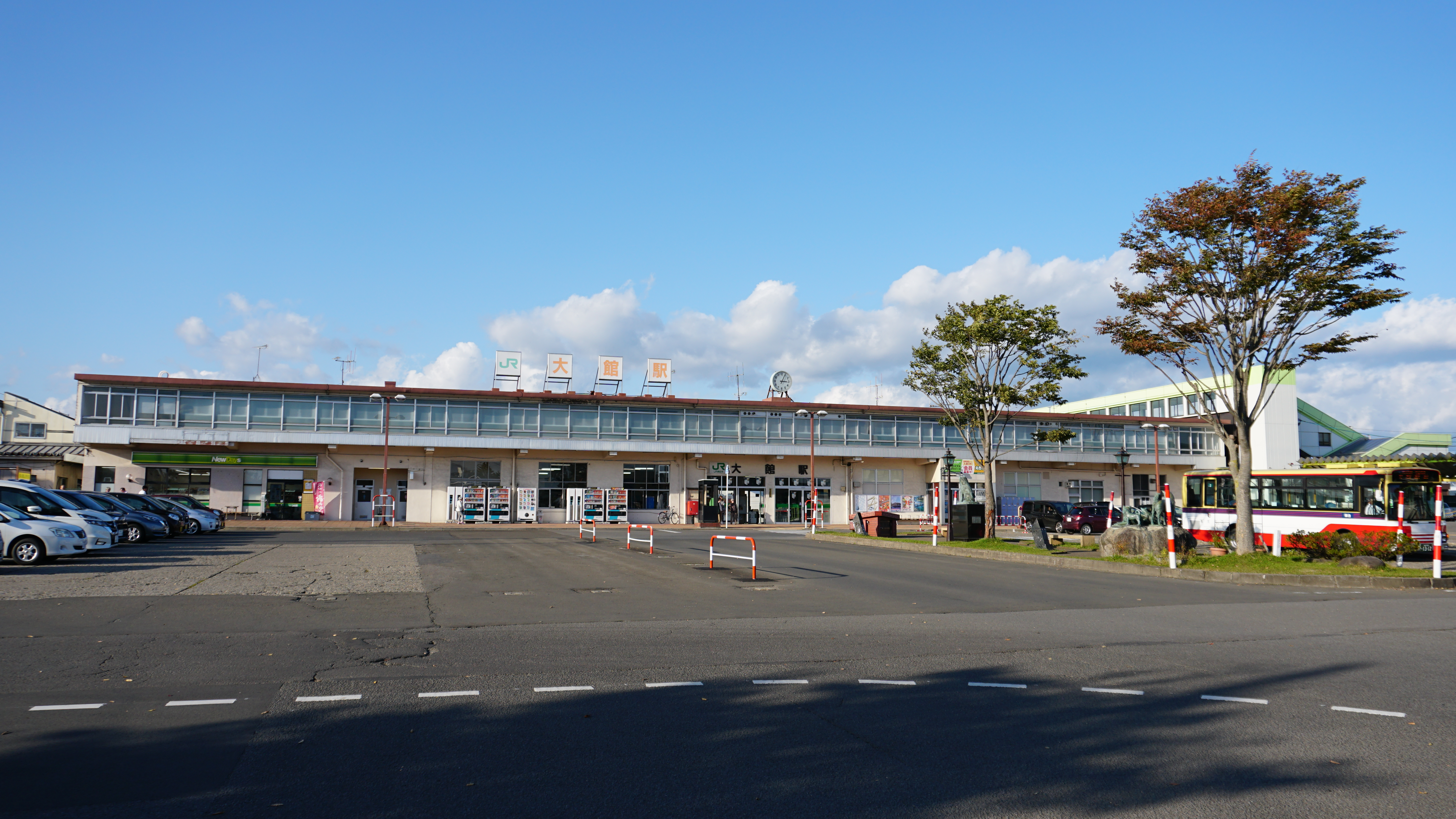 Odate railway station operated by the East Japan Railway